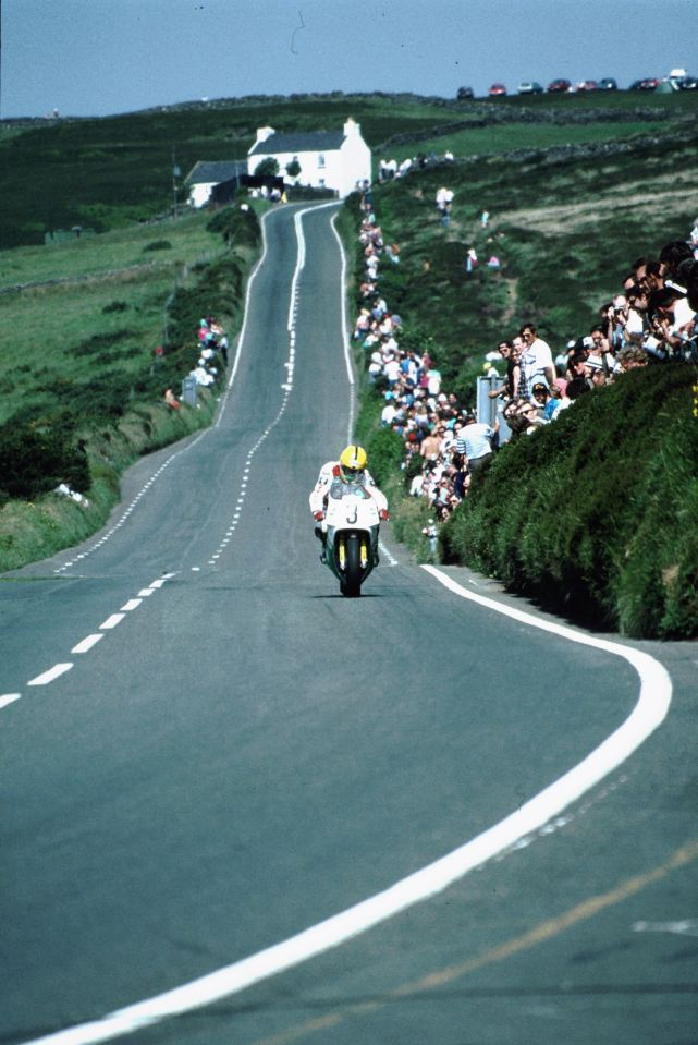 Road Racing on (temporary closed) public roads. Joey Dunlop on his Honda RC30 after Kate's Cottage on the Isle of Man.